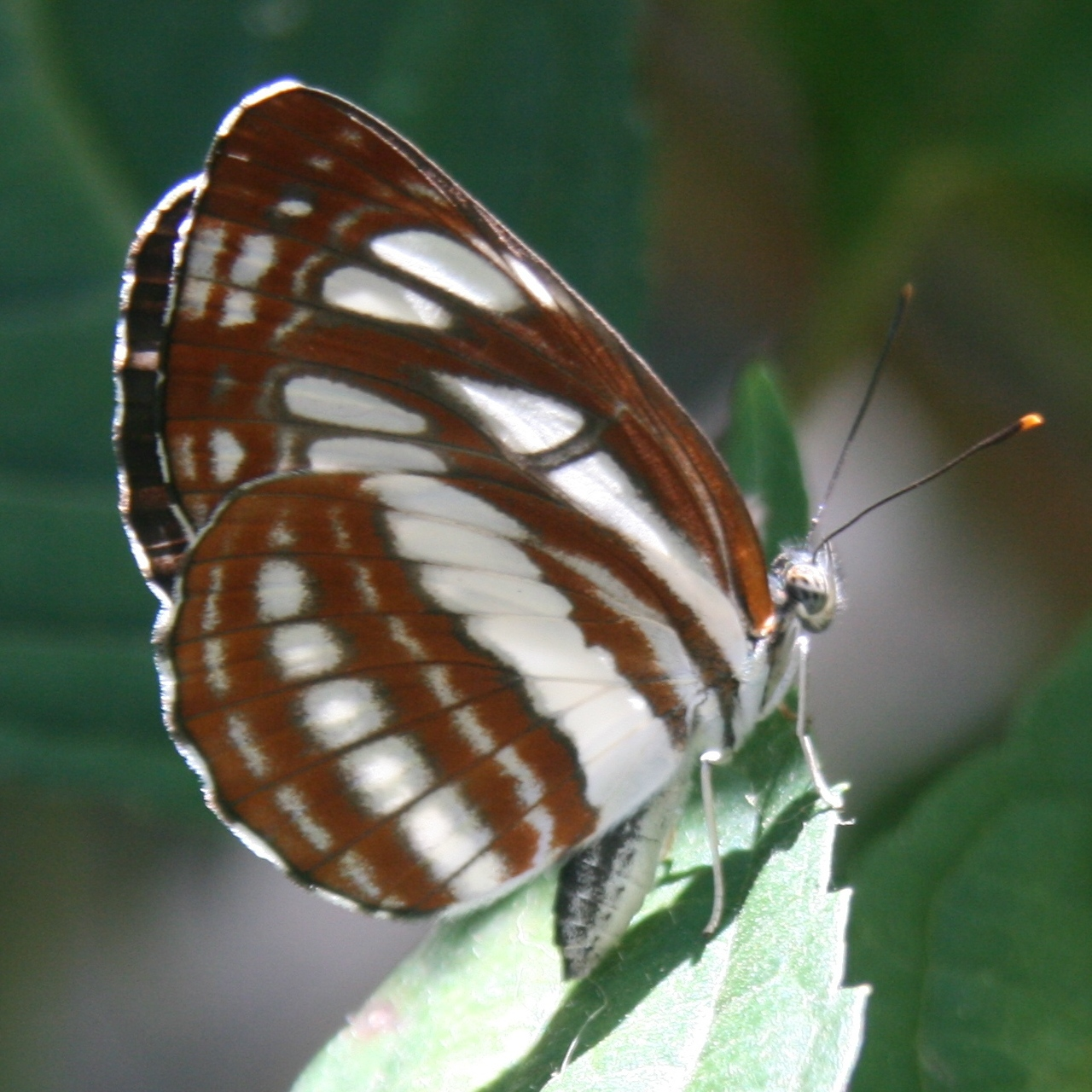 Neptis sappho in Komaki Shiminshikinomori. ssp intermedia Charles (talk) 11:07, 2 September 2019 (UTC)